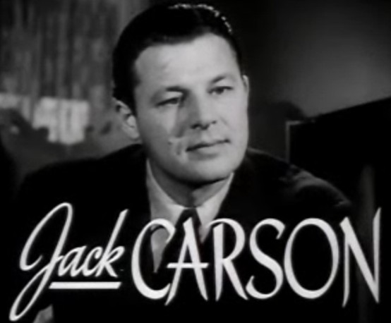 Cropped screenshot of Jack Carson from the trailer for the film The Hard Way